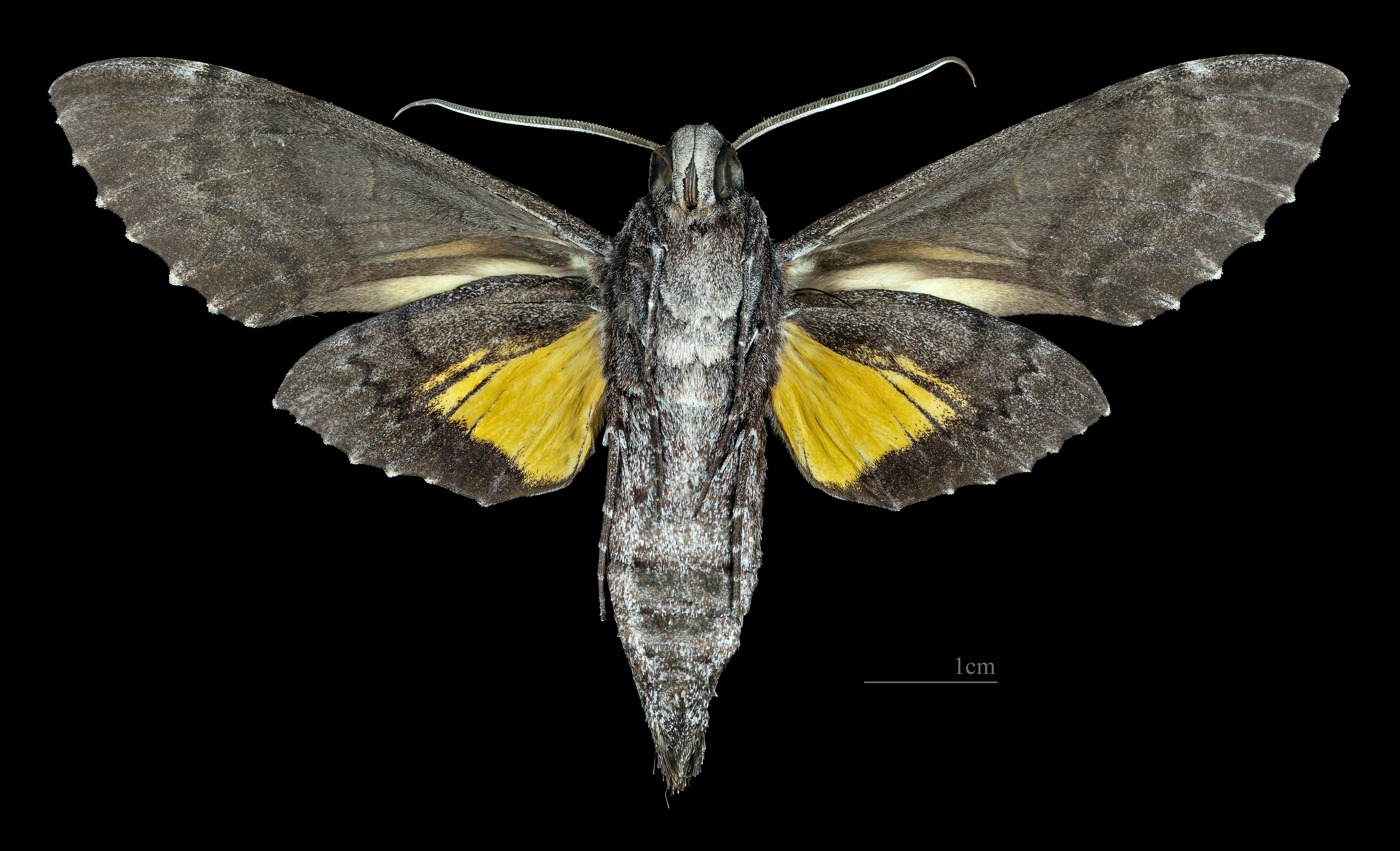 Isognathus occidentalis - △ Ventral side Collection of the Mathematician Laurent Schwartz